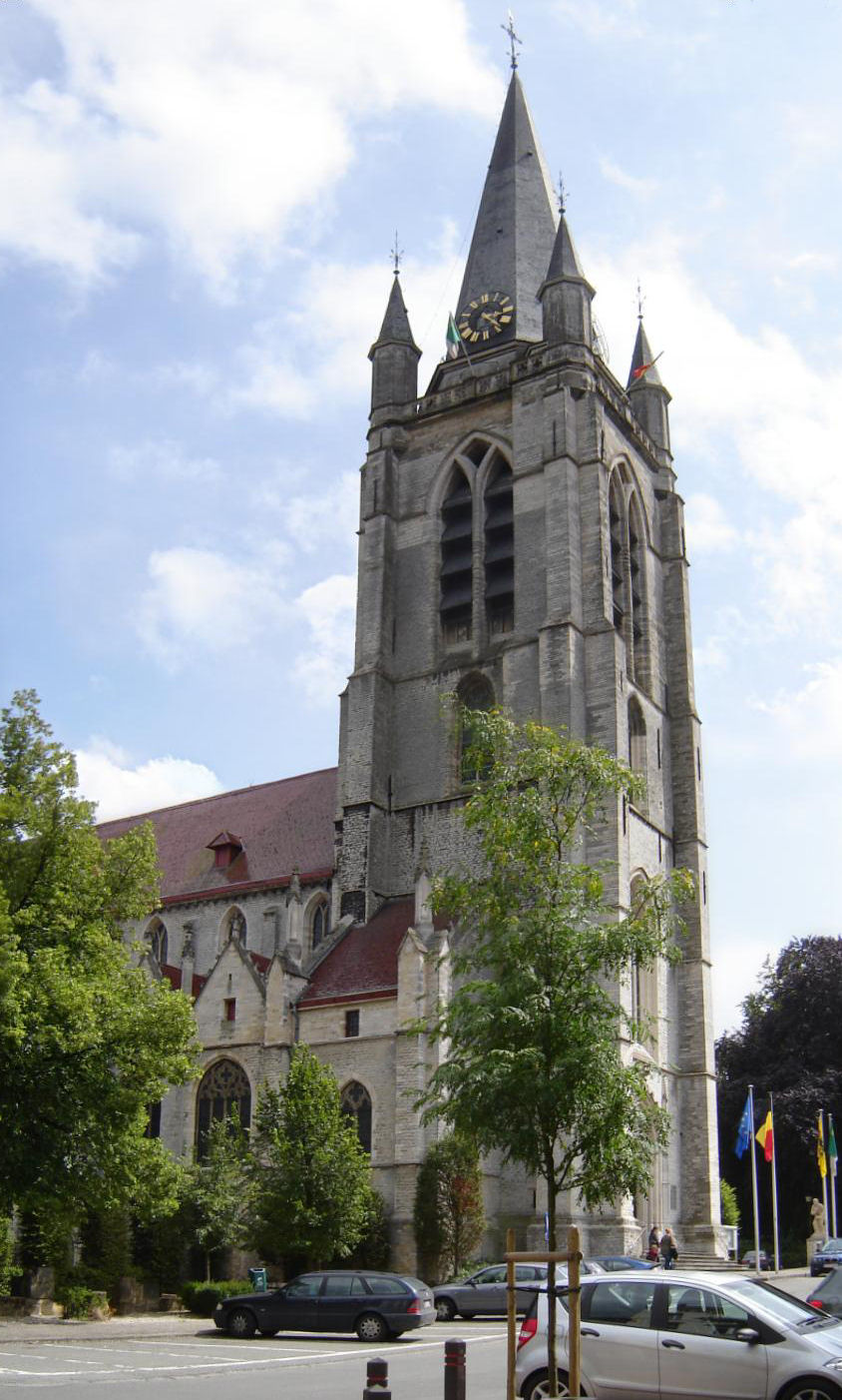 Church of Saint Hermes in Ronse, East Flanders, Belgium.